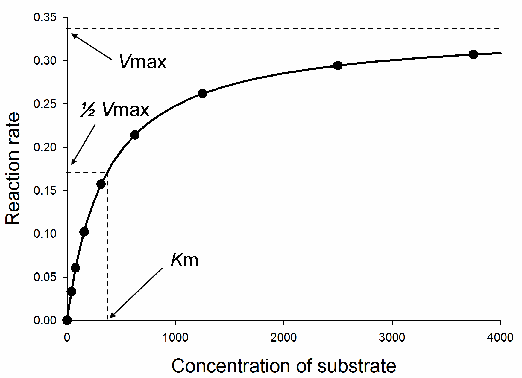 Michaelis-Menten saturation curve of an enzyme reaction. Created using SigmaPlot using an idealized fit to real experimental data (data were fitted, curve calculated and then residuals subtracted to move all the points onto the line). Graph then annotated and converted to PNG in Photoshop.